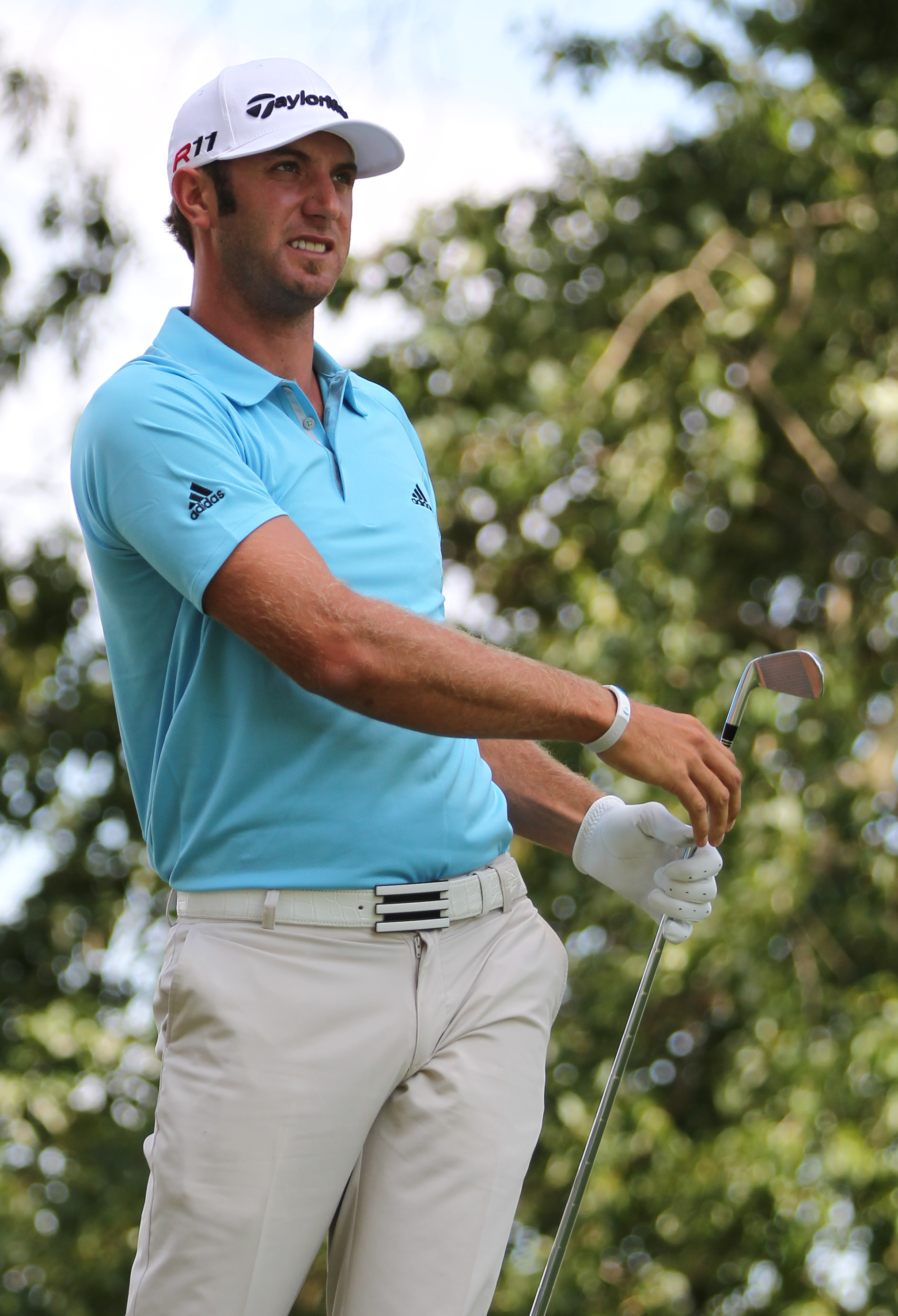 U.S. Open Golf Practice Round June 13, 2011